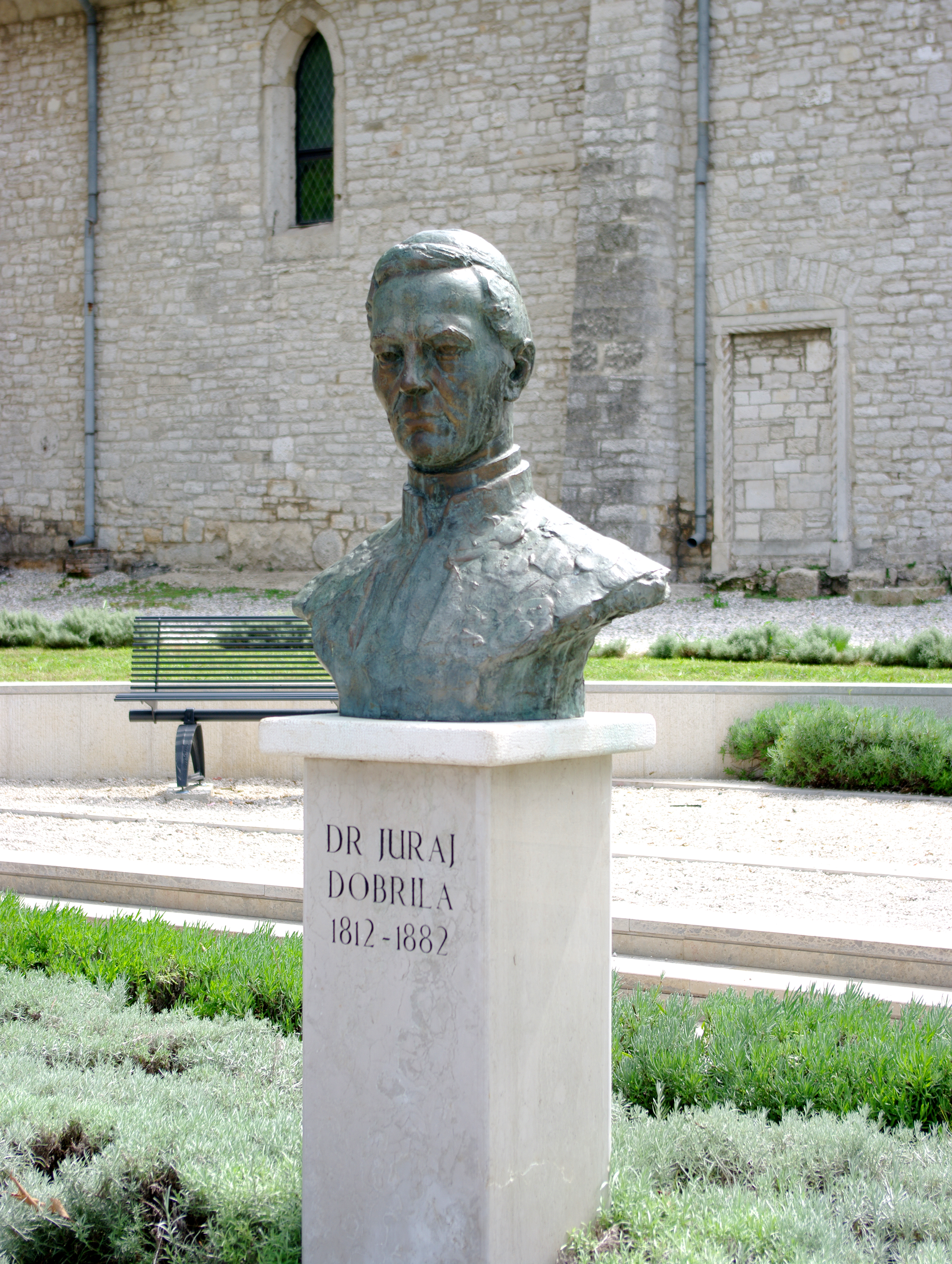 Bust of Juraj Dobrila in Pula